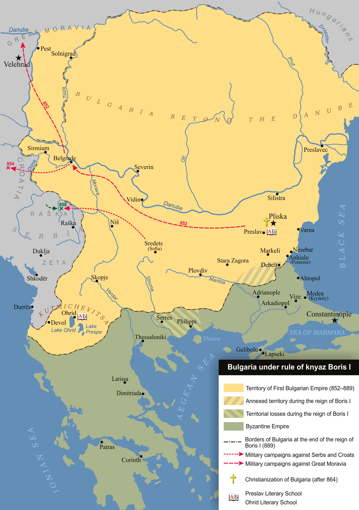 First Bulgarian Empire under rule of кnyaz Boris I. Основана на карта "Засилване и териториално разширение на Славянобългарската държава през ІХ в." в "Атлас по история на България за средните училища", издателство "Картография", София, 1990 г. (Based on map "Strengthening and territorial expansion of Slav-Bulgarian state in the IX century" in "Atlas history of Bulgaria for secondary schools", publishing house "Kartografia", Sofia, 1990.)